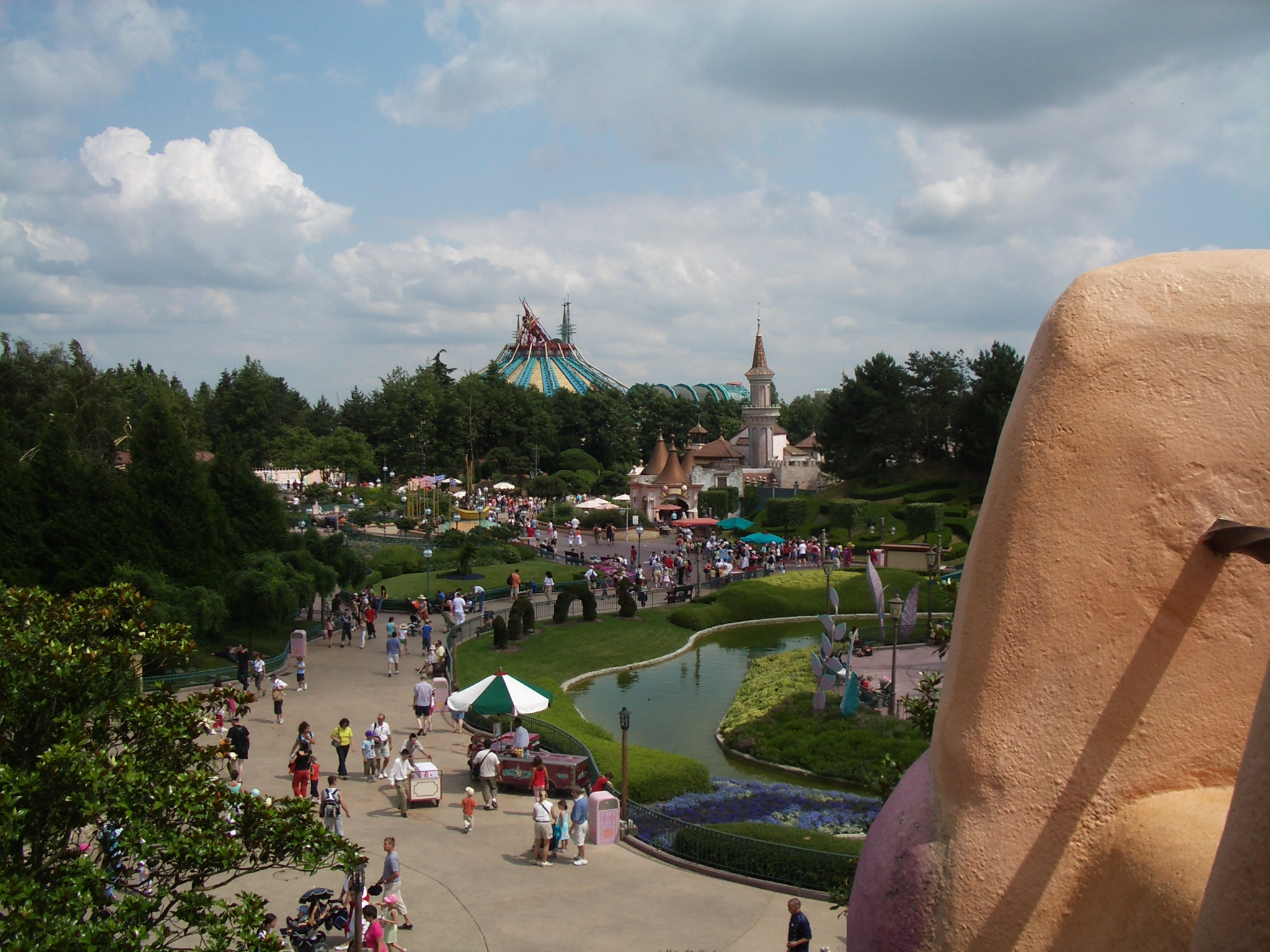 Disneyland Resort Paris Photos From the maze